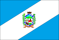 Flags of the city of Estação, Rio Grande do Sul, Brazil.